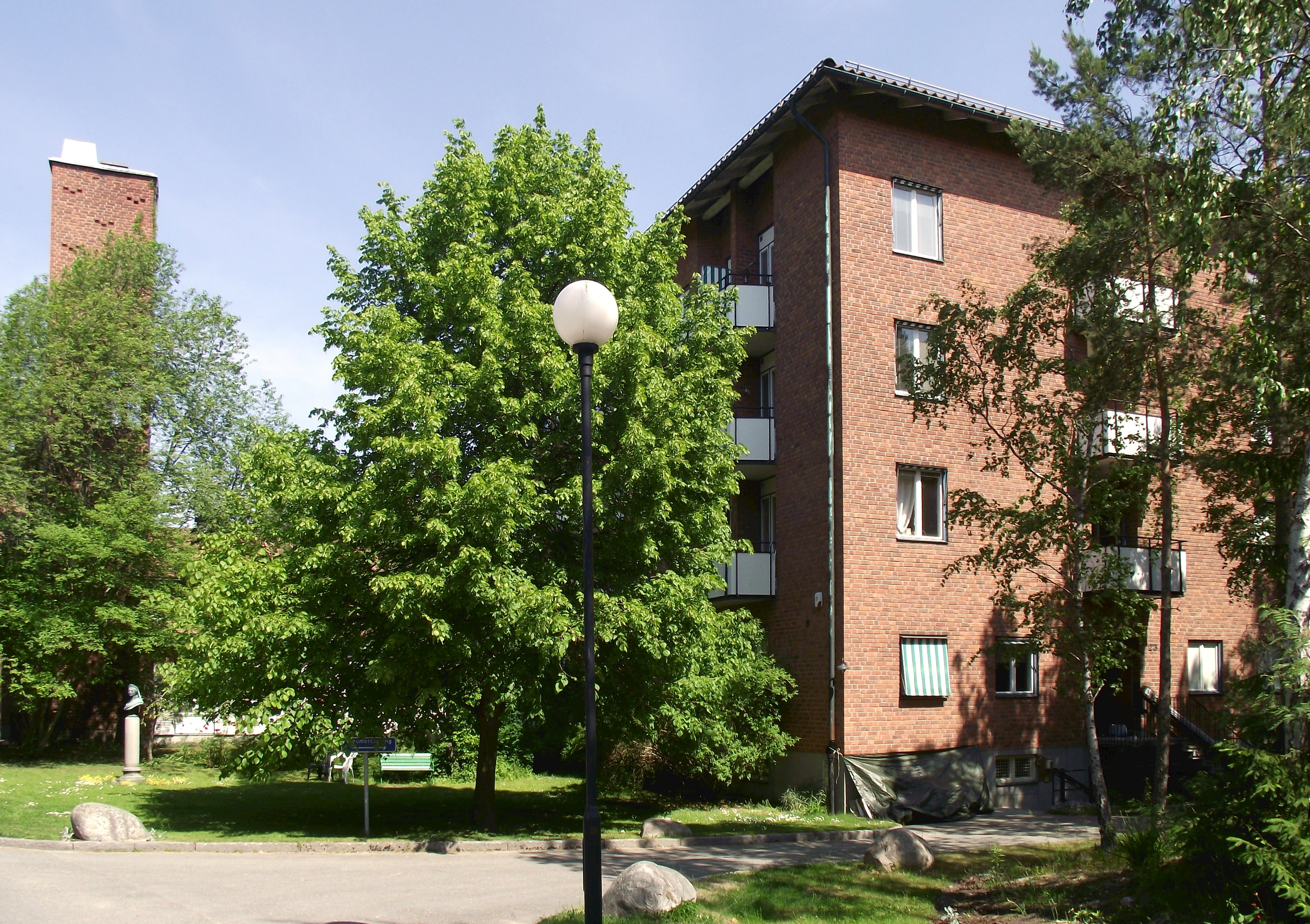 Oscars minne in Bagarmossen